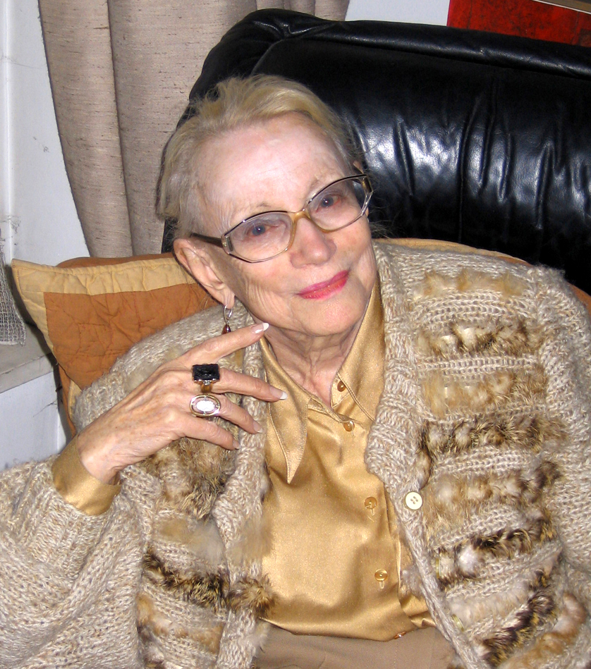 A portrait of the famous Paris-based psychoanalyst Joyce McDougall, one of the best analyst in the world...